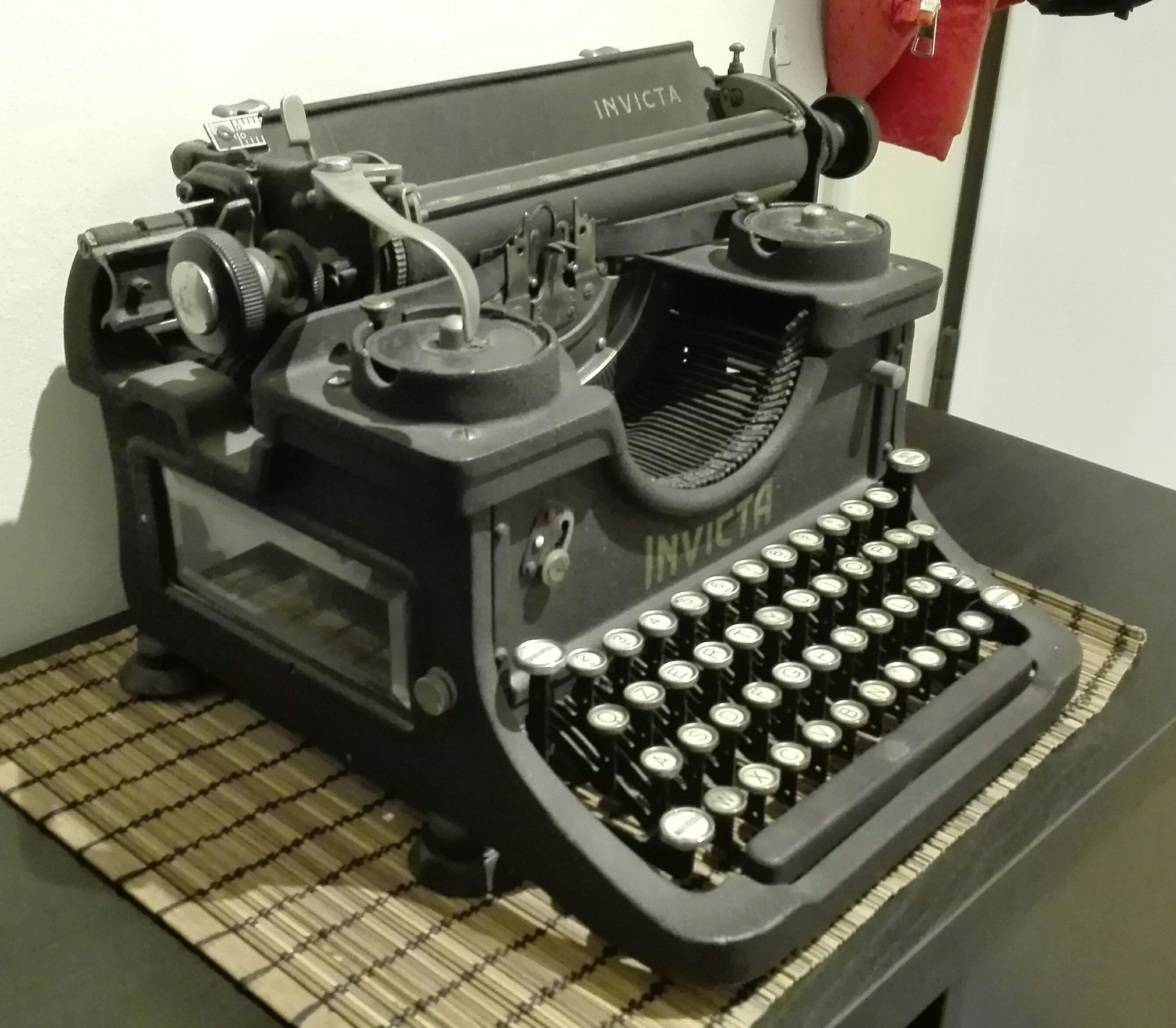 Invicta typewriter model 5. Made in italy